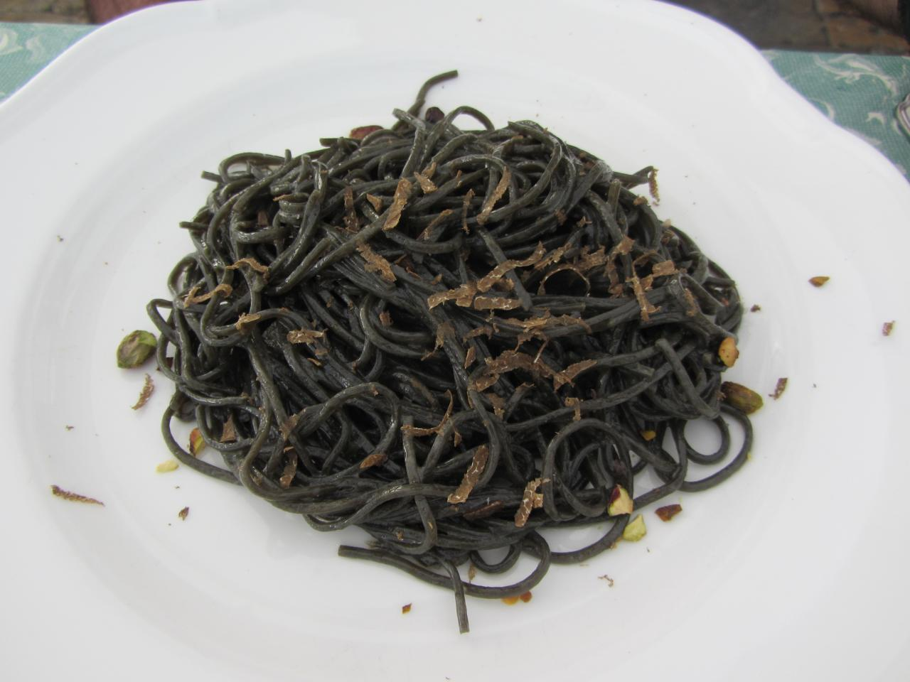 Not the prettiest thing on the table, but delicious.